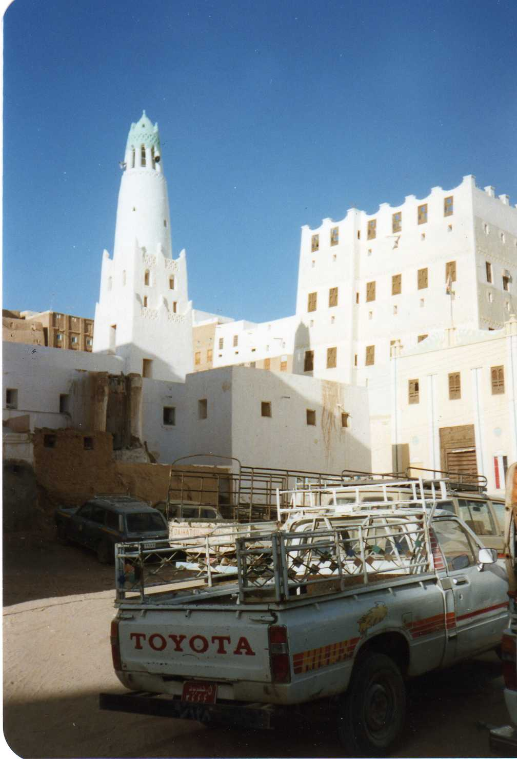 Old City in Shibam, Yemen Picture from my private archive, taken in march 1993